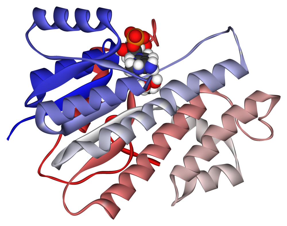 Ribbon diagram of human carbonyl reductase 1 in complex with NADPH and a small molecule inhibitor, 3-(1-tert-butyl-4-amino-1H-pyrazolo[3,4-d]pyrimidin-3-yl)phenol (not shown). Colored from N- to C-terminus. Created using Accelrys DS Visualizer Pro 1.7 and the GIMP.